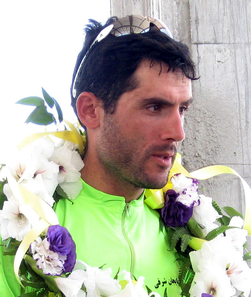 Ghader Mizbani in National Championship of iran in Semnan